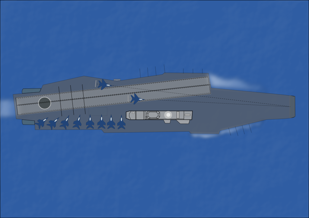 Graphical image of INS Vikramaditya.